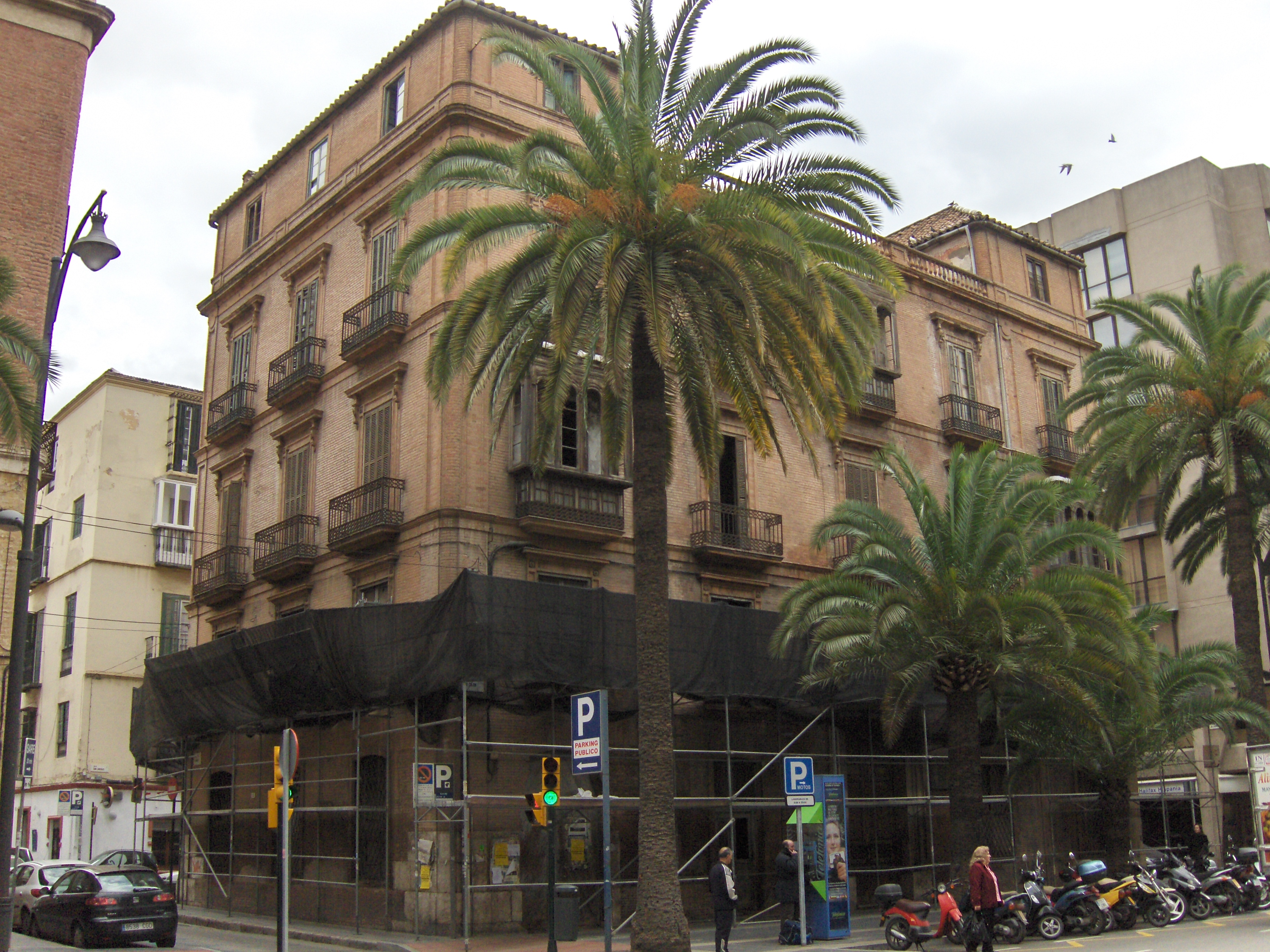 Building in Alameda de Colón 7, Málaga, Spain. Architect: Diego Clavero y Zafra. Built in 1864